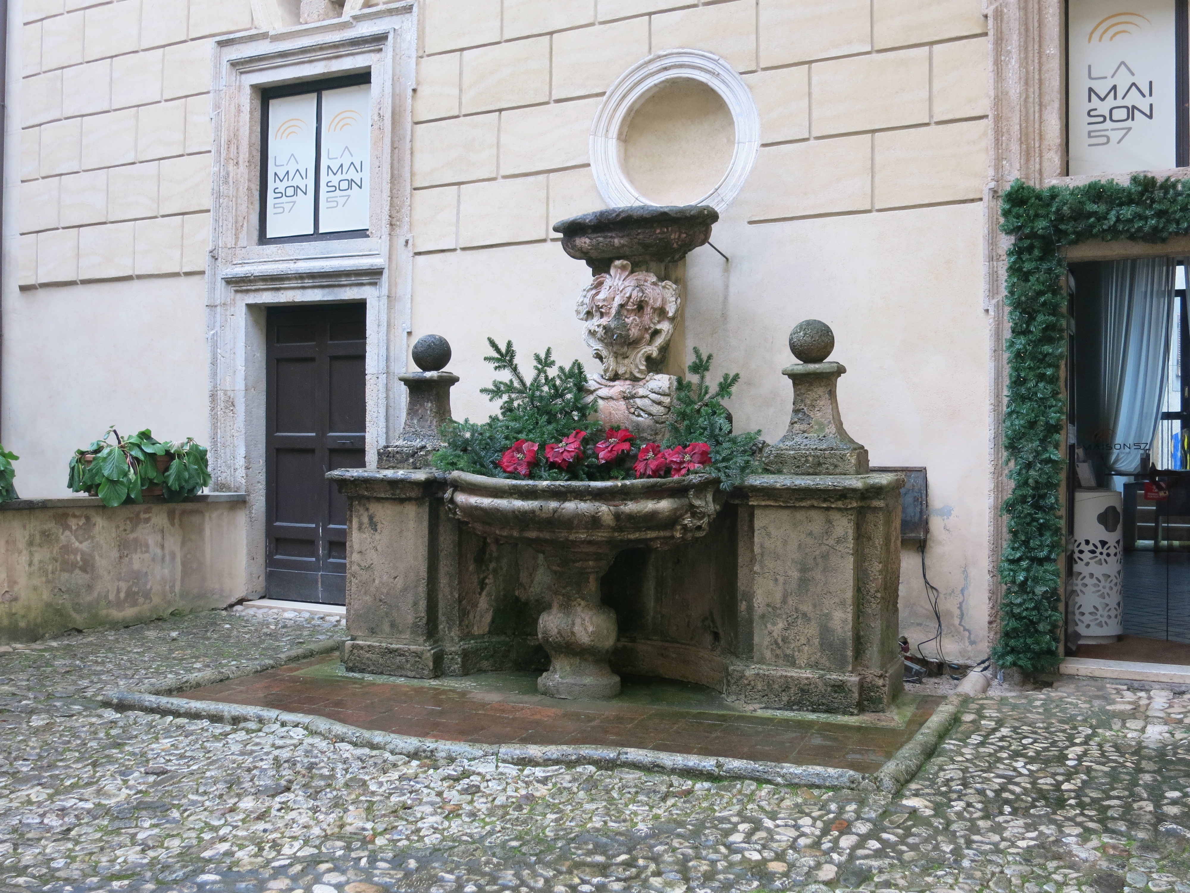 Vecchiarelli Palace - Rieti, Lazio, Italy